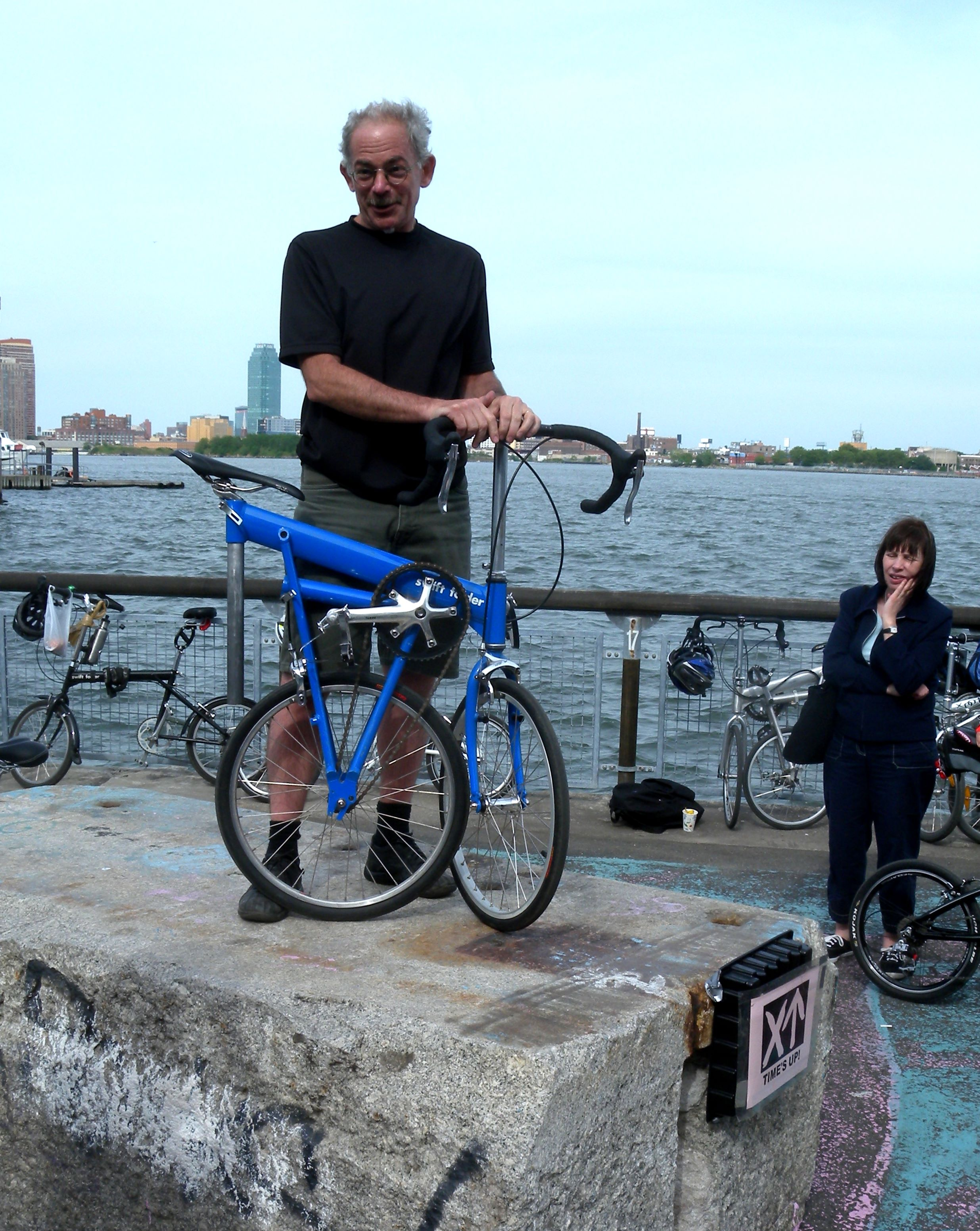 Looking east as a Swift is being folded.